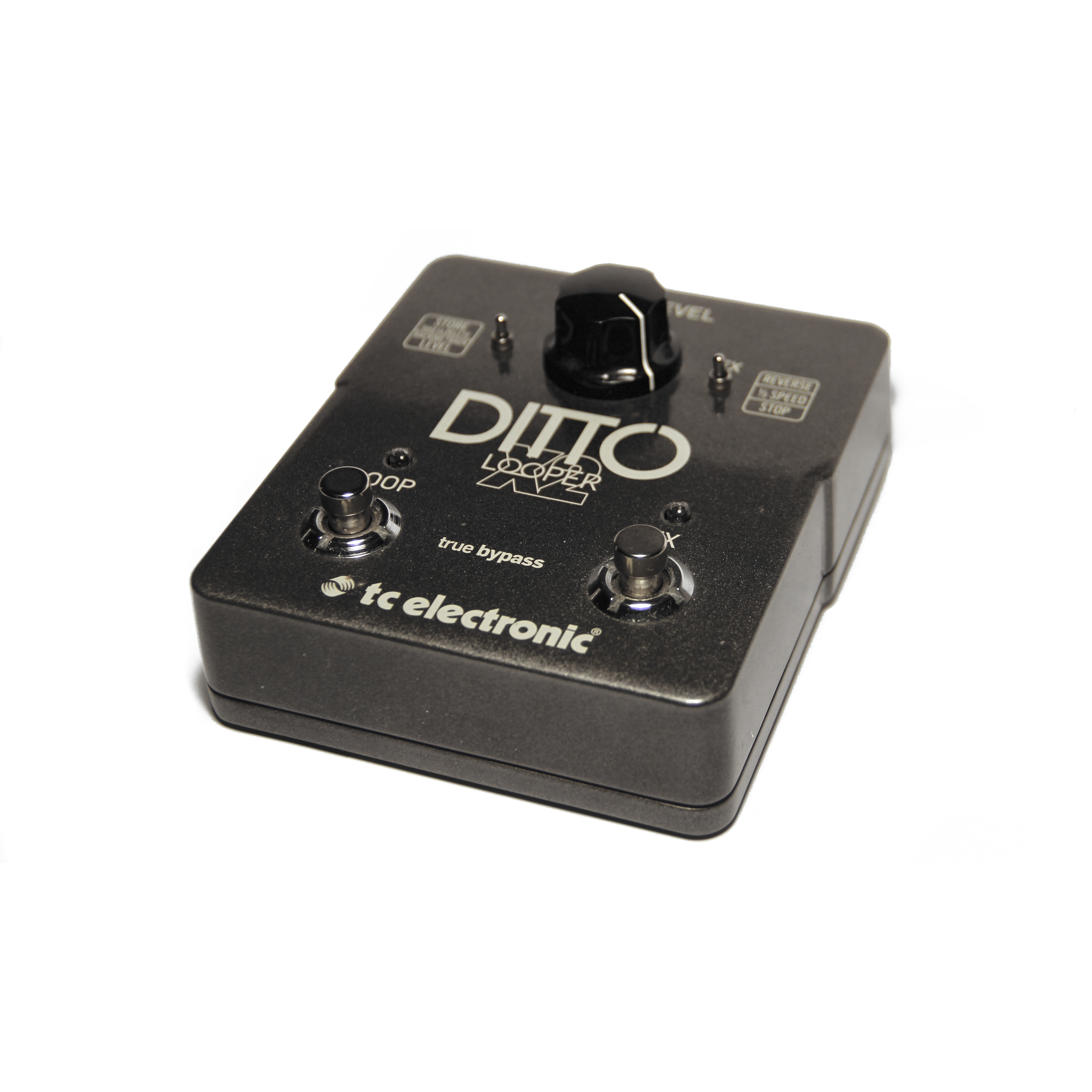 Picture of TC Electronic's Ditto Looper X2